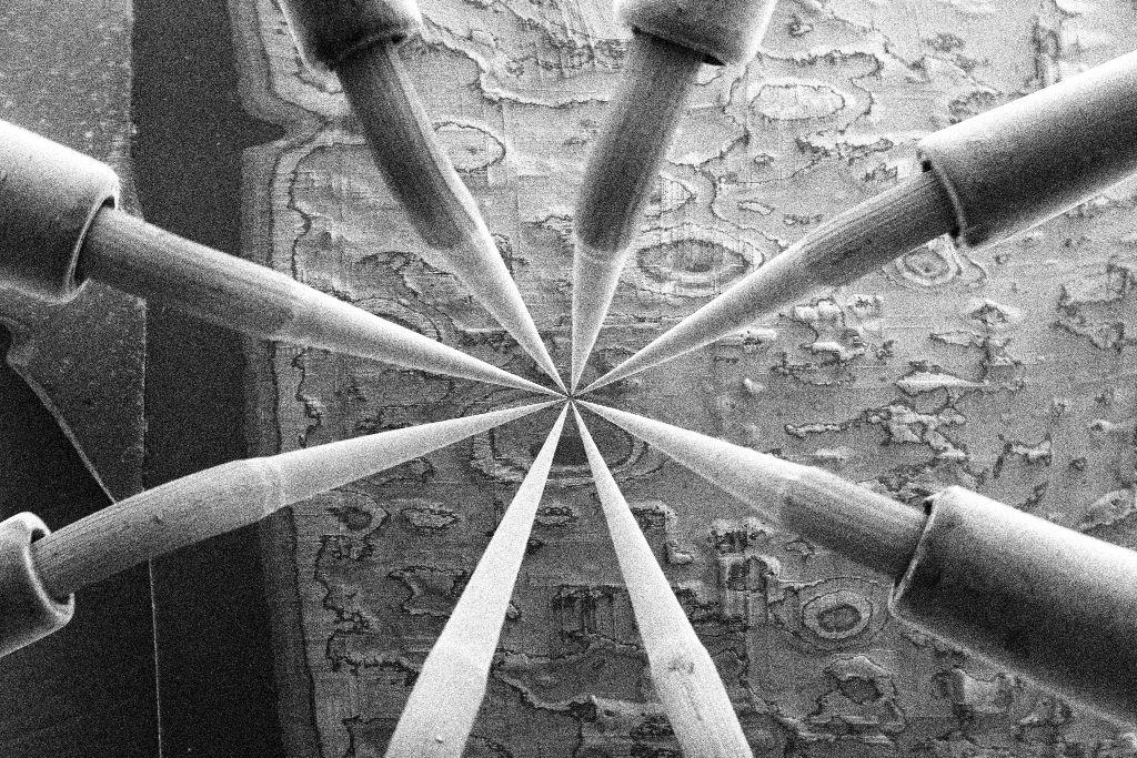 Eight nanoprobes can be seen hovering over a device a to be tested.